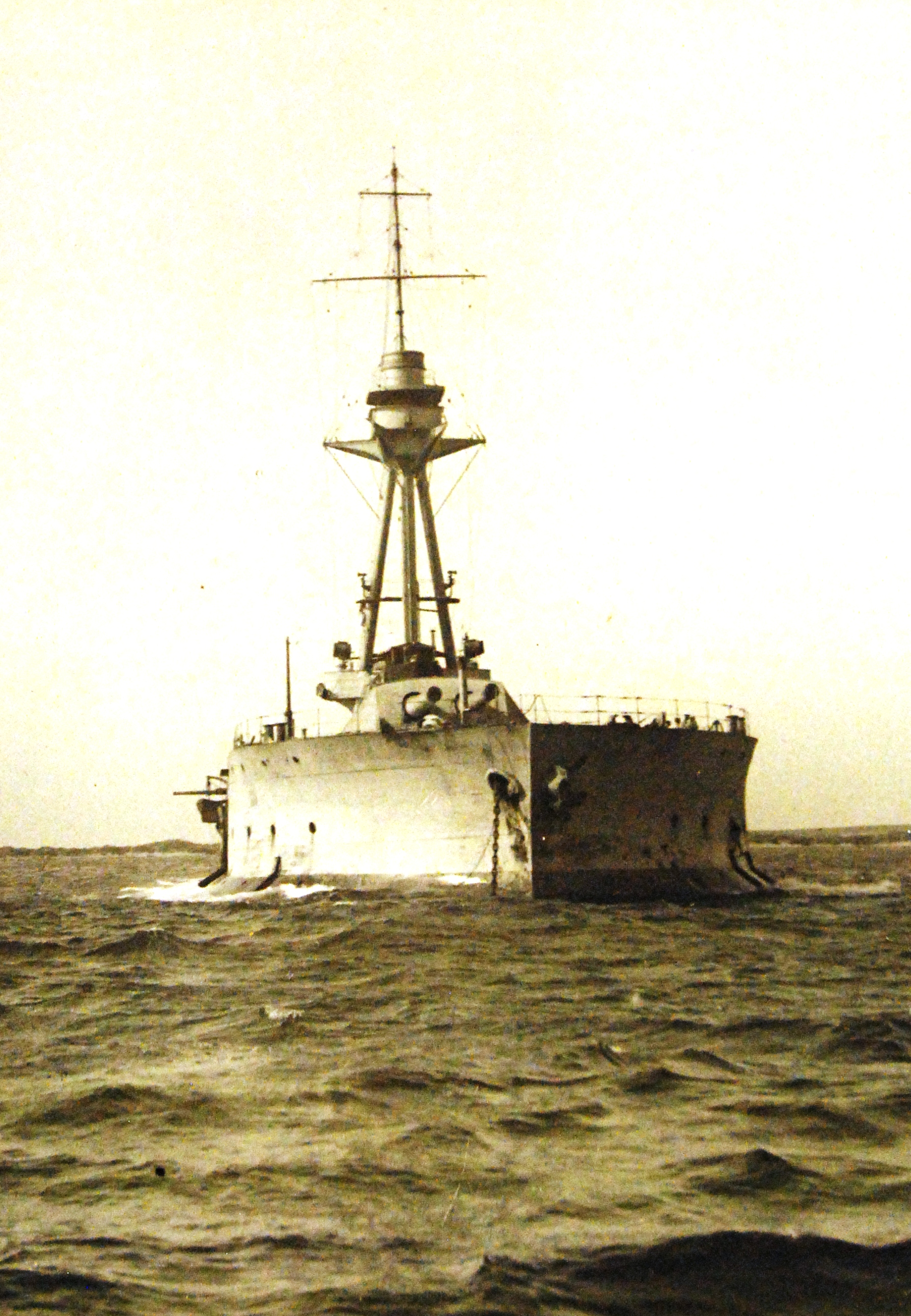 Lot 9609-33: Royal Navy (British) during the First World War. Dardanelles Campaign. Royal Navy monitor, HMS Ambercrombie. Of note, she was named in honor of Admiral David G. Farragut, HMS Admiral Farragut, but when the U.S. remained neutral during WWI, she was renamed. Collection was transferred from a British government source in 1920 to the Library of Congress. (9/18/2015).